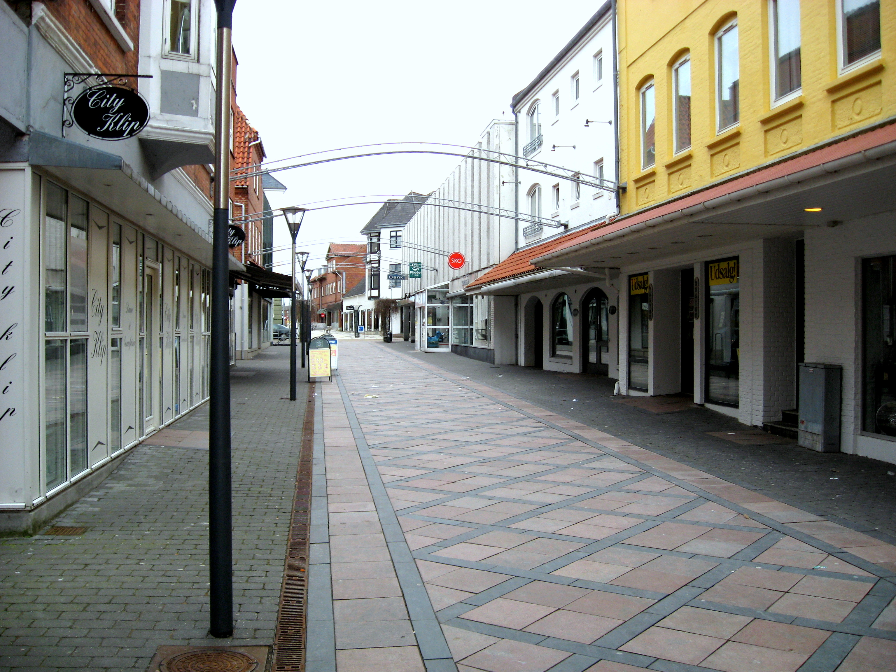 Brønderslev, Denmark